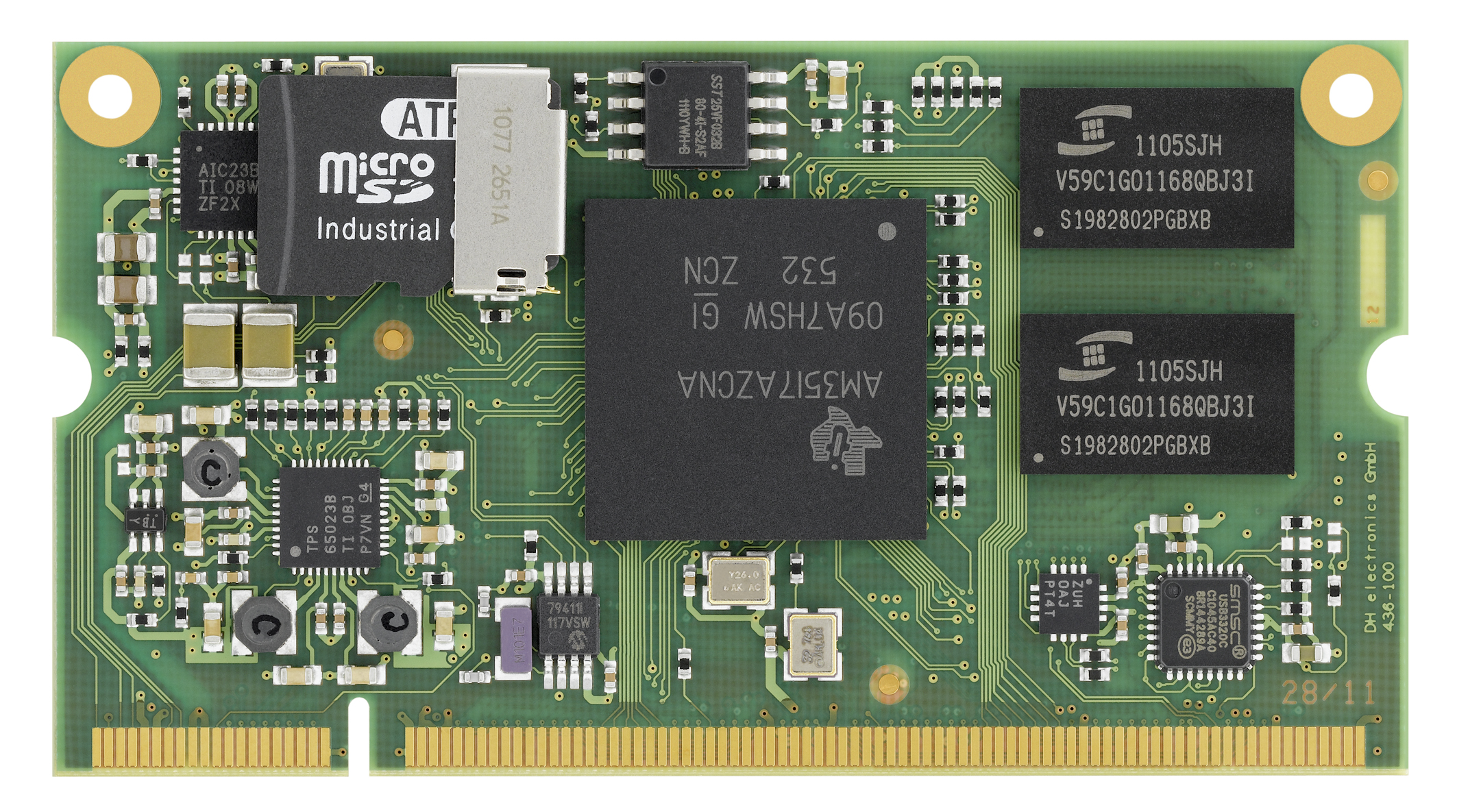 DHCOM Computer On Module with AM35x Processor